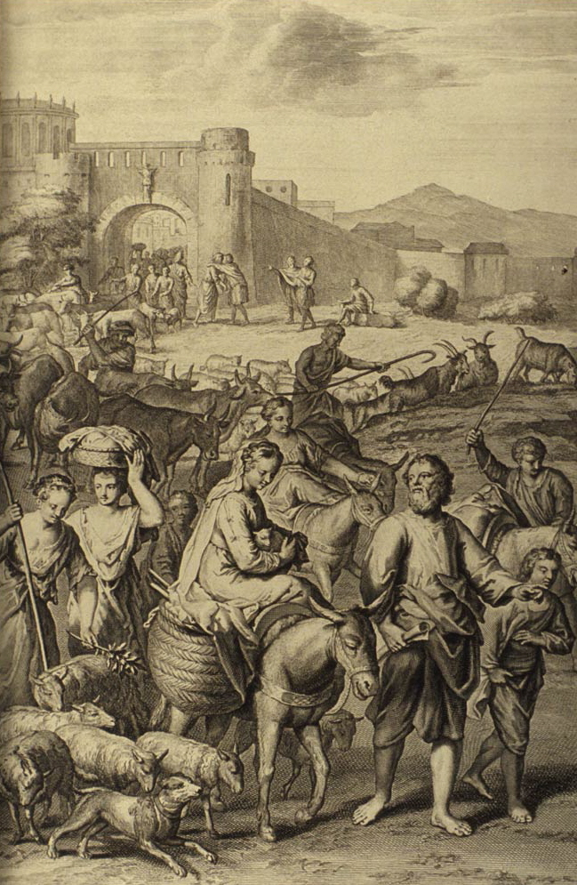 Abram and Lot Depart Out of Haran, as in Genesis 12:4-5: "So Abram departed, as the Lord had spoken unto him; and Lot went with him: and Abram was seventy and five years old when he departed out of Haran. And Abram took Sarai his wife, and Lot his brother's son, and all their substance that they had gathered, and the souls that they had gotten in Haran; and they went forth to go into the land of Canaan; and into the land of Canaan they came."; illustration from the 1728 Figures de la Bible; illustrated by Gerard Hoet (1648–1733) and others, and published by P. de Hondt in The Hague; image courtesy Bizzell Bible Collection, University of Oklahoma Libraries